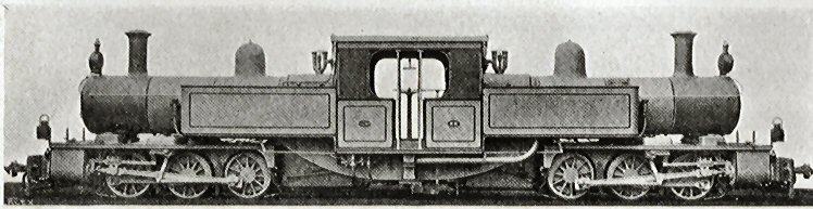 Fairlie type locomotive built for the Burma Railway Company by the Vulcan Foundry Co.